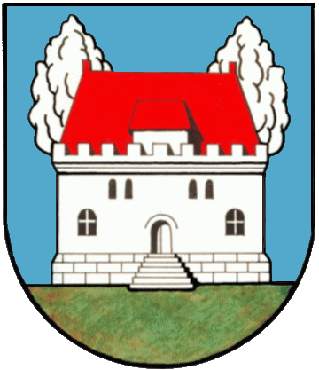 Coat of arms of Aull